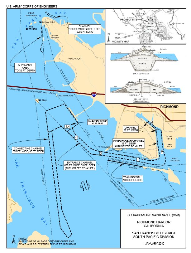 Port of Richmond-California map from US Army